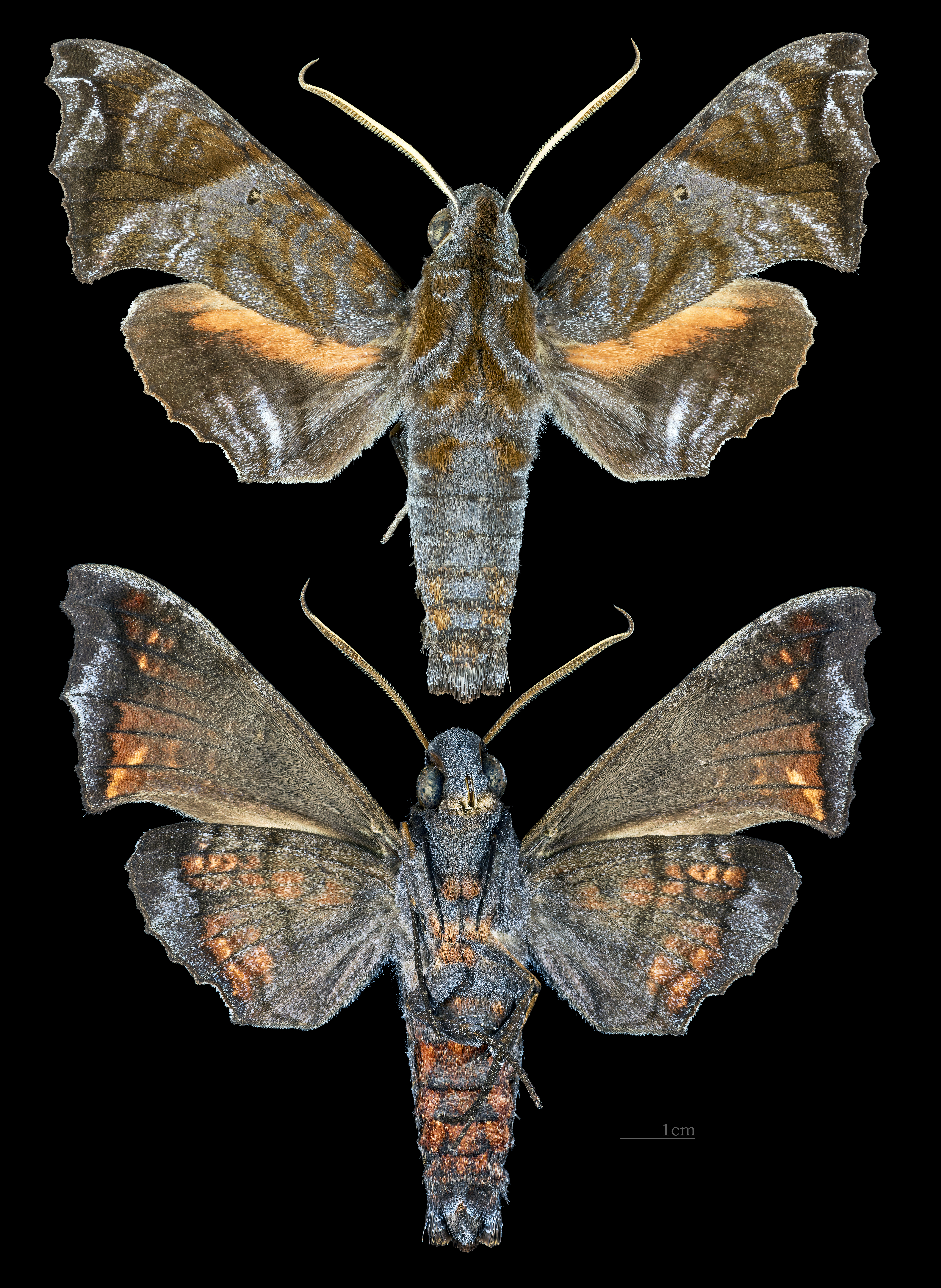 Nyceryx magna - Two views of same specimen Collection of the Mathematician Laurent Schwartz